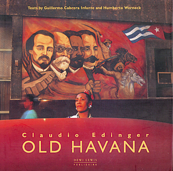 Livro Old Havana